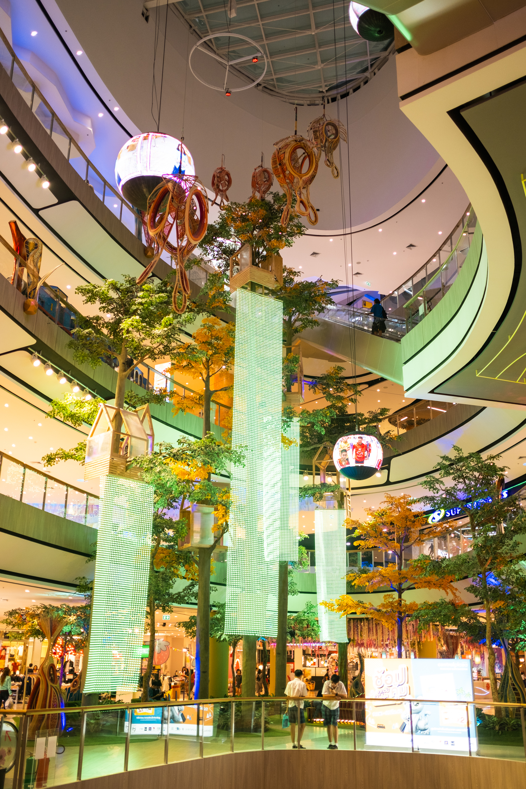 One of the open spaces inside the Central Mall of Korat